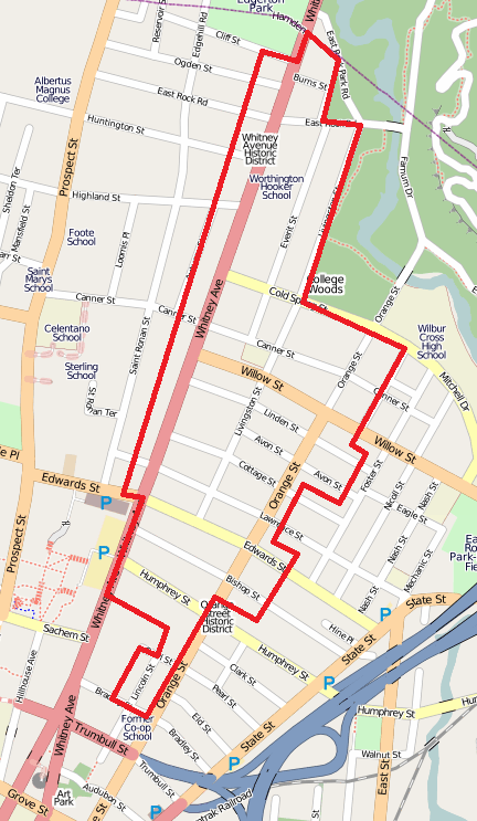 This city map image could be recreated using vector graphics as an SVG file. This has several advantages; see Commons:Media for cleanup for more information. If an SVG form of this image is available, please upload it and afterwards replace this template with vector version available|new image name . It is recommended to name the SVG file "Whitney Avenue Historic District map.svg" - then the template Vector version available (or Vva) does not need the new image name parameter. Map of approximate boundaries of Whitney Avenue Historic District based on City of New Haven planning maps and using imagery from OpenStreetMap. See also NRHP application for the district (William E. Devlin and Bruce Clouette (June 9, 1988). "National Register of Historic Places Inventory-Nomination: Whitney Avenue Historic District". National Park Service. ) The actual district lines will vary slightly, such as along irregular rear lines of properties.